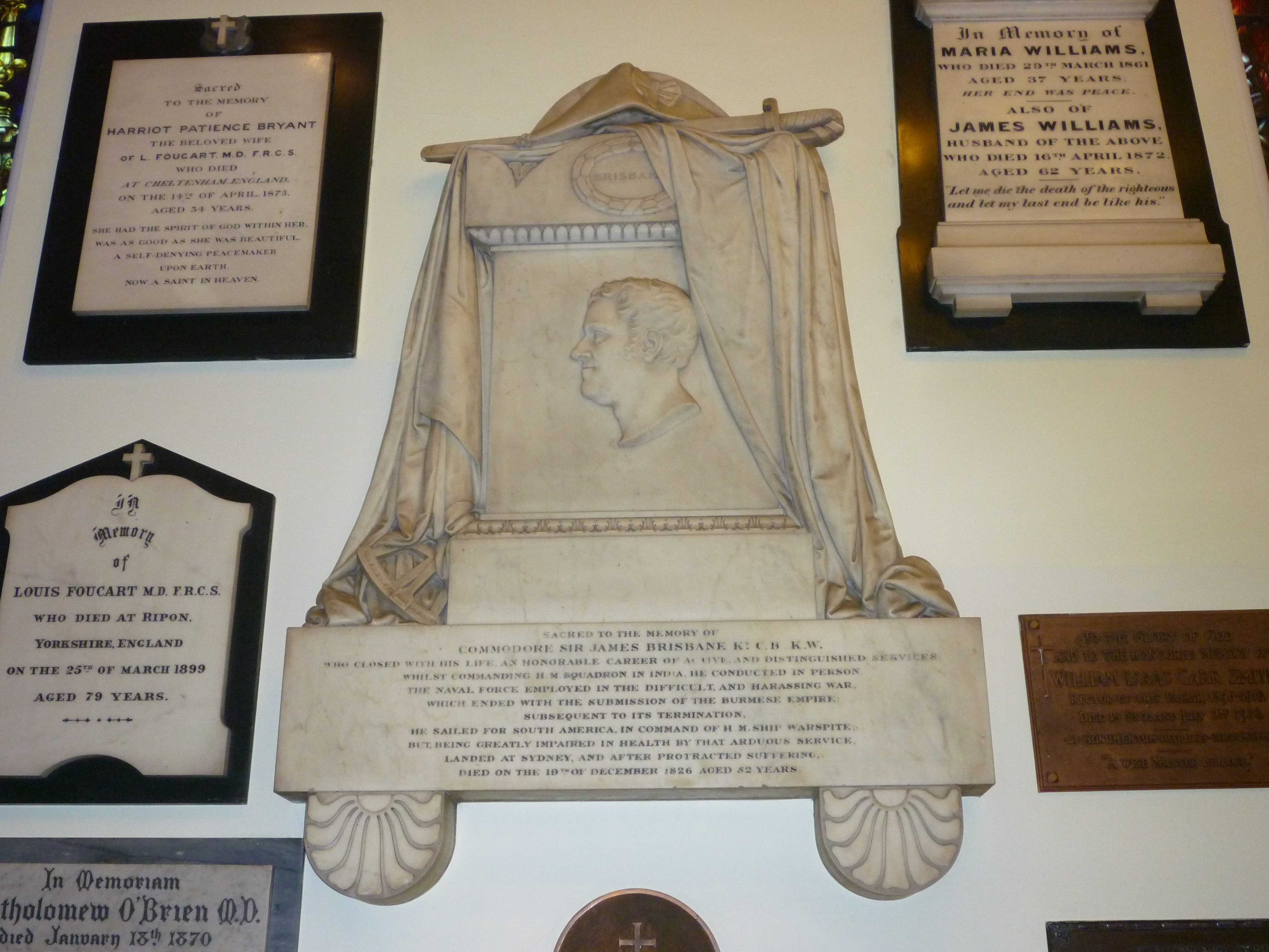 St James Church, Sydney - Memorial to Brisbane